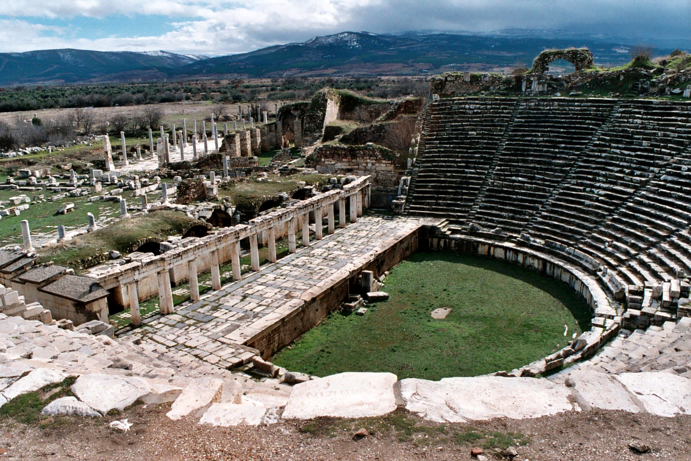 Aphrodisias, the Theater